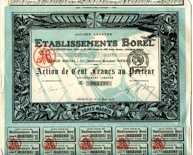 1918 share certificate printed in France.